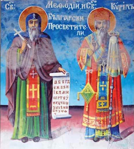 Tepavci, Church of the Ascension of Christ, "St. Methodius and St. Cyril Bulgarian enlighteners" fresco, north wall.